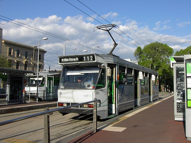 A1 245 (tram) at St Vincents Plaza on route 112, St Vincents Plaza, Melbourne, Australia.jpg